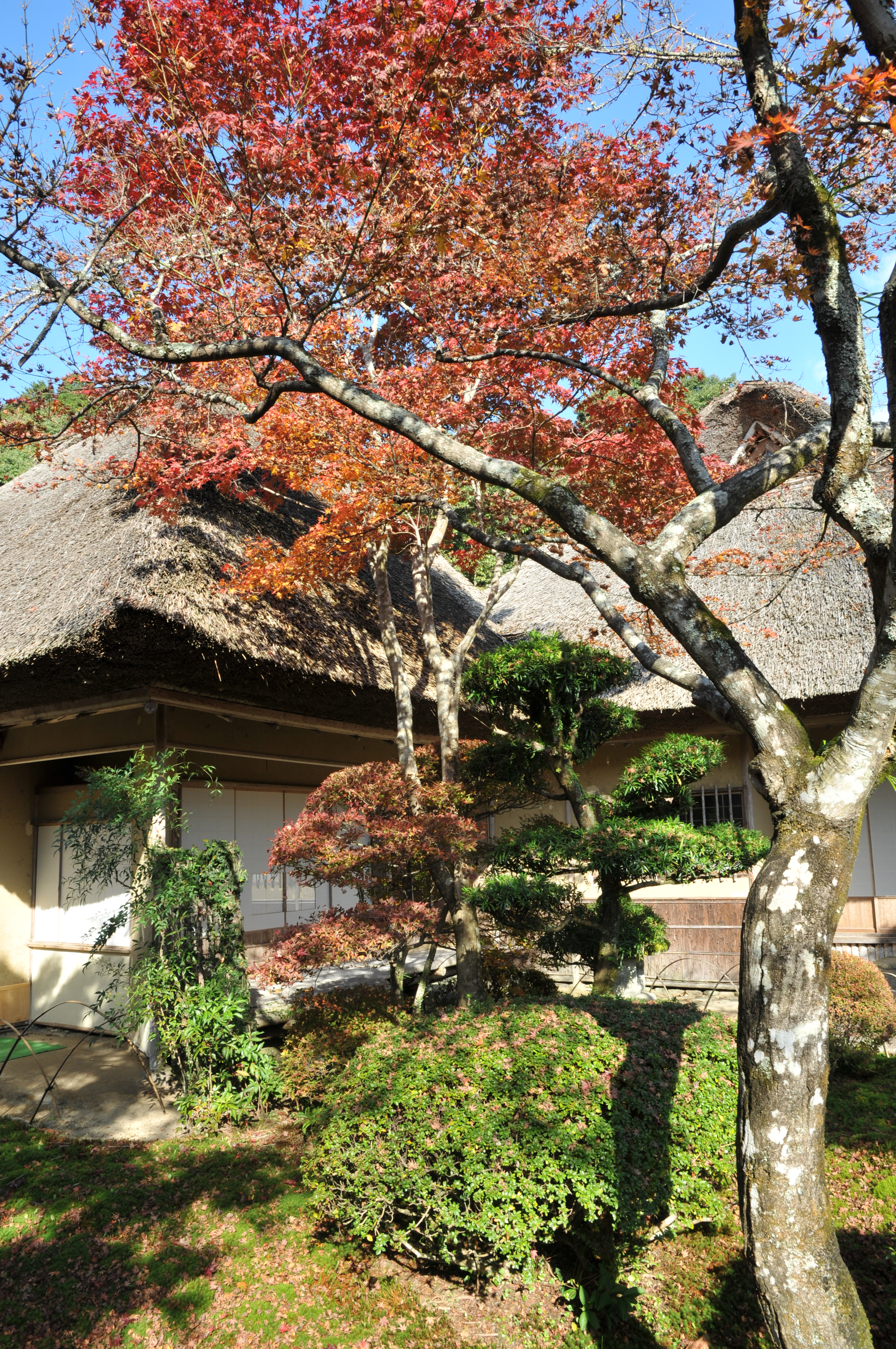 Photograph of Kunen'an(Japanese garden) in Kanzaki city, Saga pref.